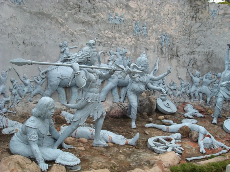 Monument showing the historical "Hari-Hor Yuddha" at Agnigarh Hill, Tezpur.